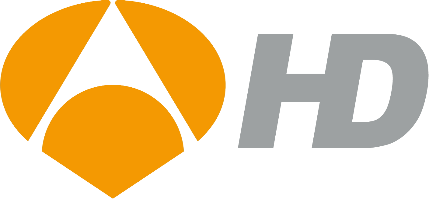 Ahaiii